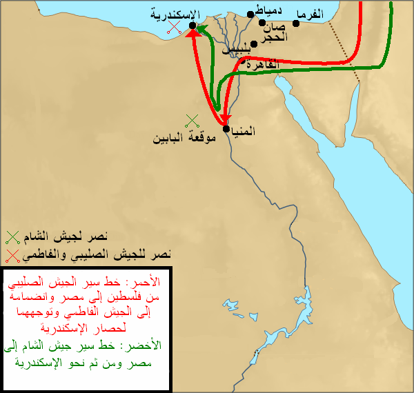 Map showing third invasion of Egypt by Crusaders